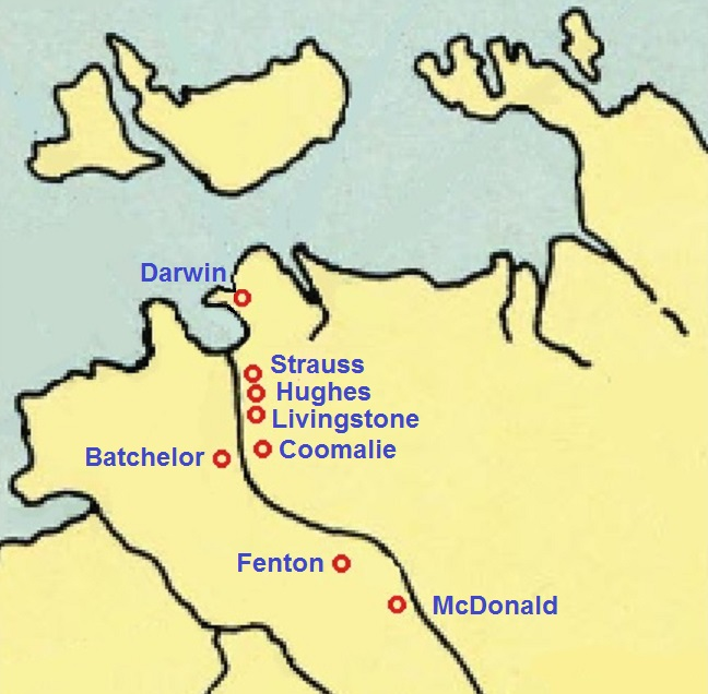 RAAF North-Western Area airfields as at April 1943.